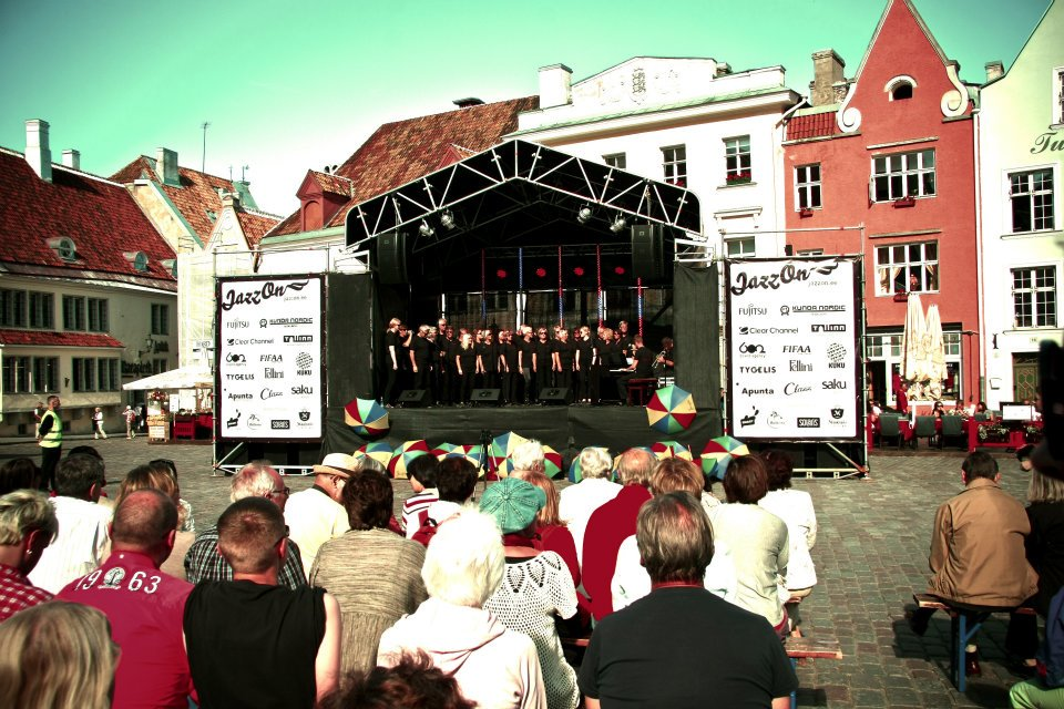 Tallinn JazzOn is a three-day annual music festival held in the Old Town of Tallinn, the capital city of Estonia. As a non-profit event, “Tallinn JazzOn” aims at spreading jazz music, promoting culture, fostering international collaboration between musicians and providing high-quality free-of-charge musical performances to jazz lovers from Tallinn and other cities. In 2013, the music festival “Tallinn JazzOn” will take place from 28–30 June in Tallinn Old Town.